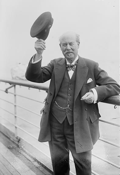 Sir Thomas Johnstone Lipton (1848-1931)